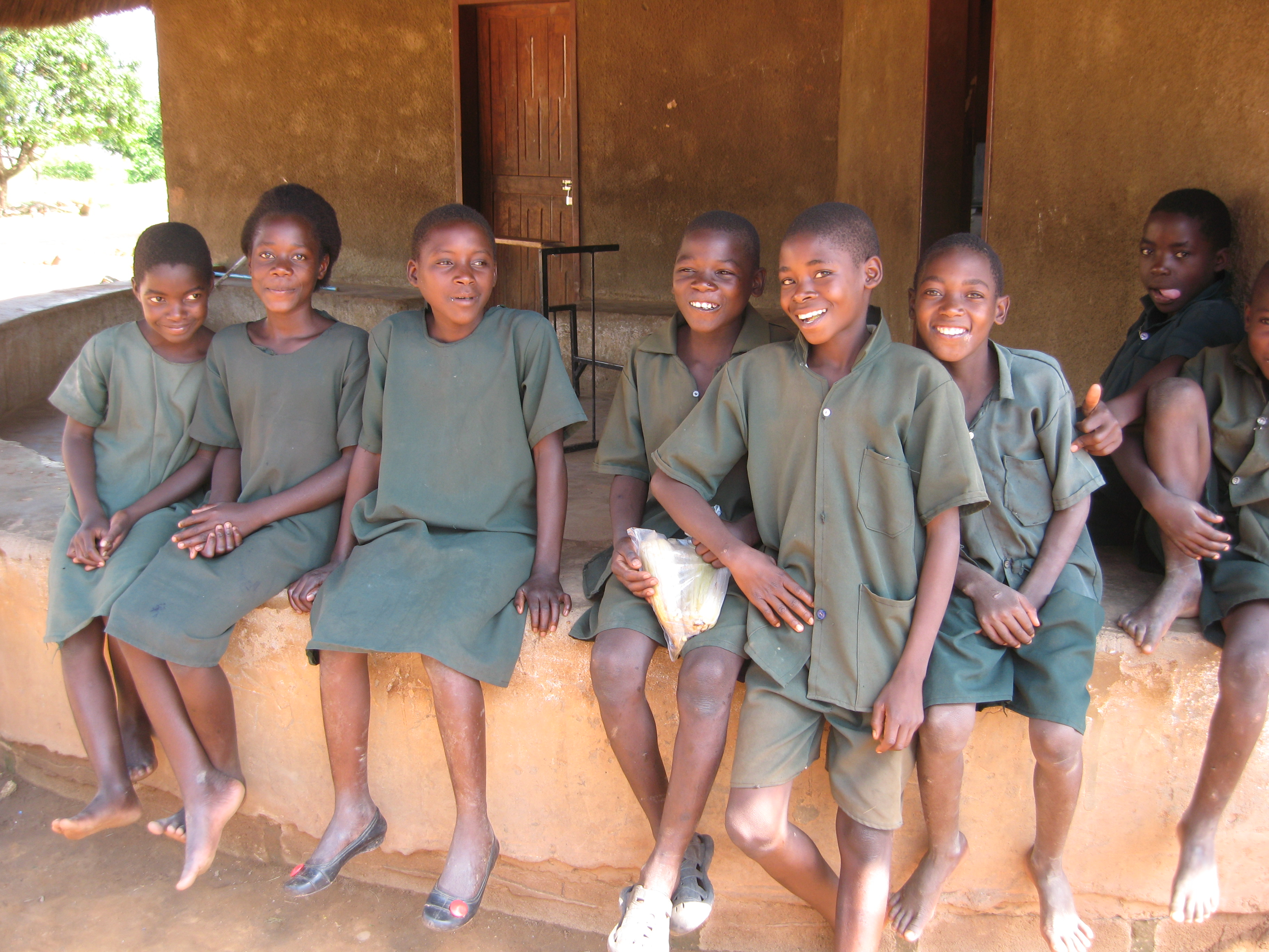 Children outside Lukamantano school, near Monze, in southern Zambia, March 2012. UK aid helps to keep 30,000 children in primary school across Zambia.